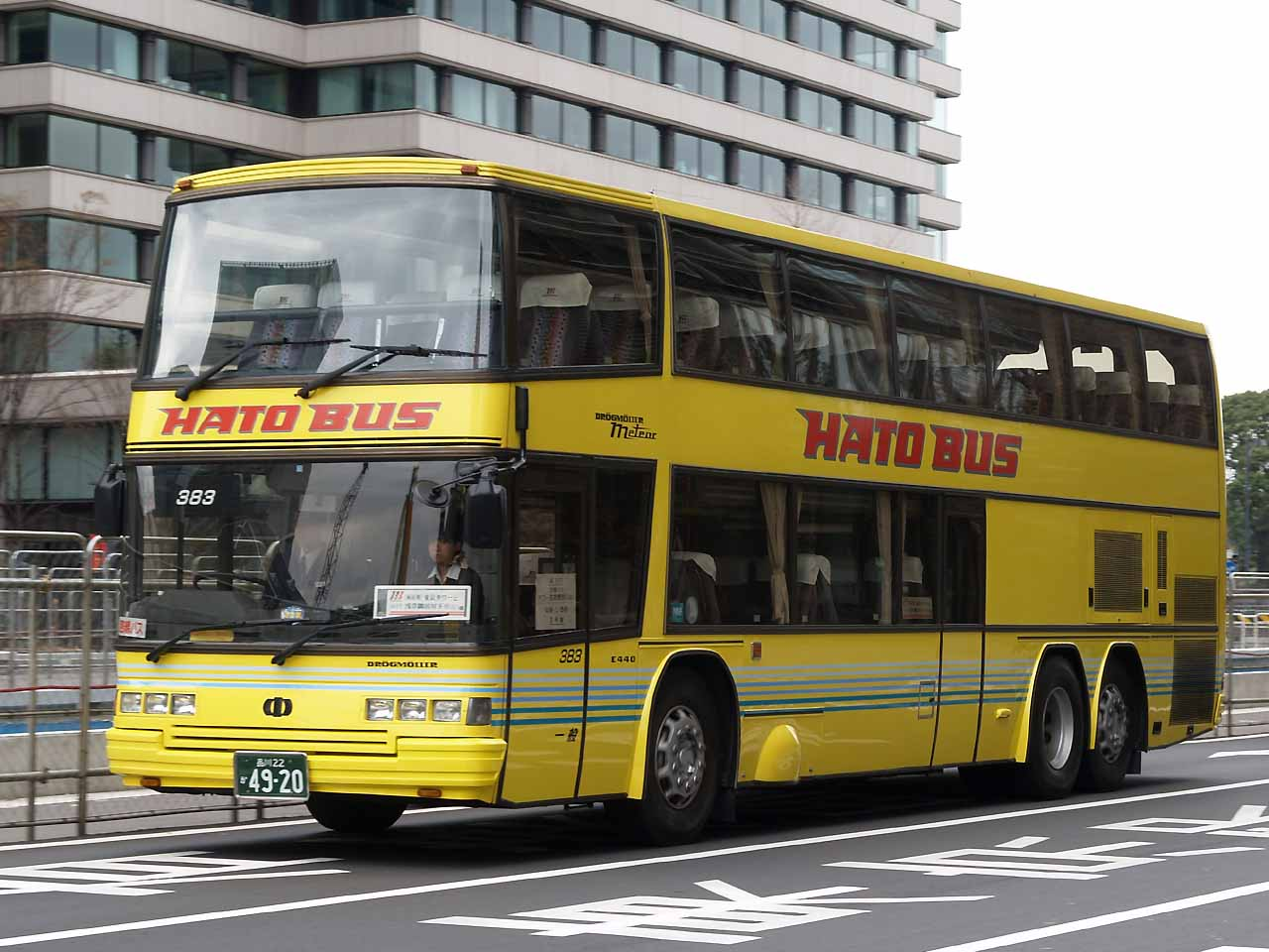 Fleet of Hato Bus, double decker coach for city tour. Since 2009 autumn, customizued to open top bus. Model: Drögmöller E440 "Meteor" License plate: TKS22 KA4920 after: TKS230 A-383 Place: neighbour of Shin-Marunouchi Bldg, Marunouchi, Chiyoda ward, Tokyo Japan